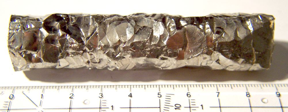 purest Zirconium 99.97%, crystal bar, made by crystal bar process